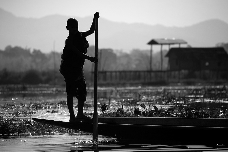 Sunset at Inle Lake